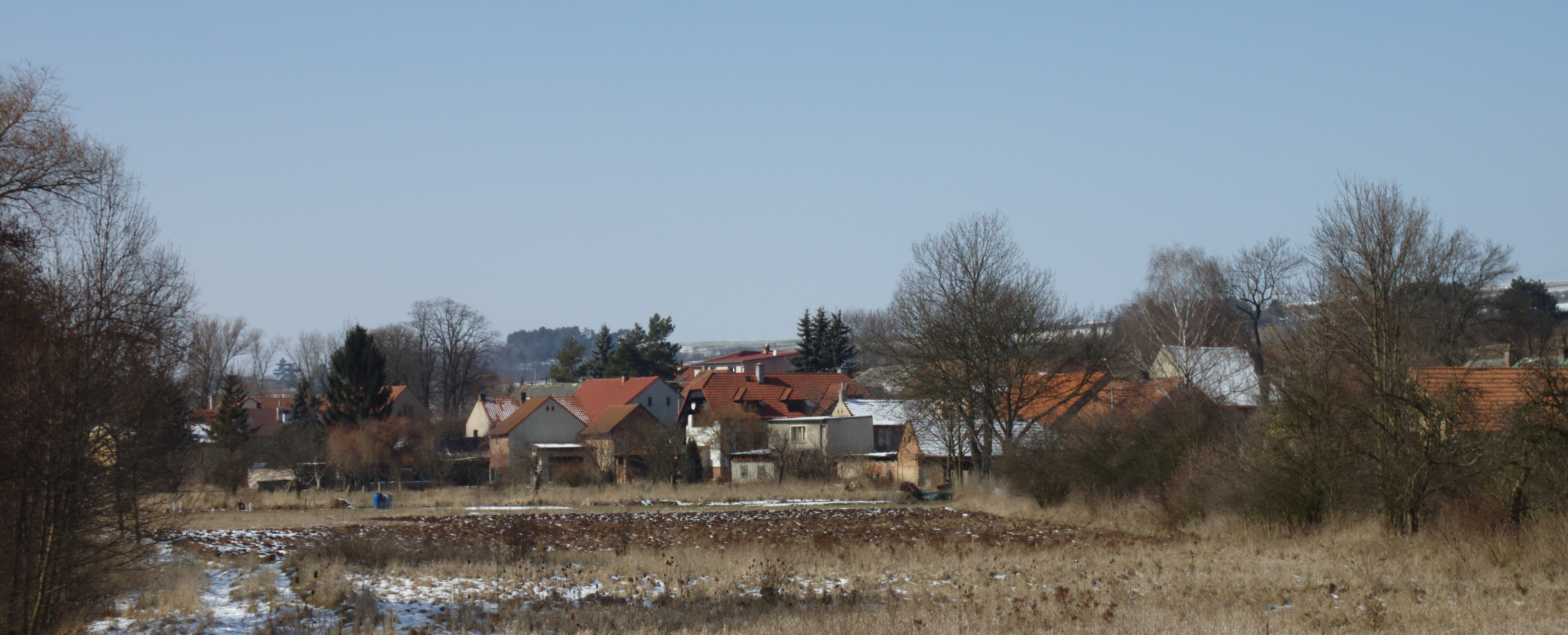 Stradonice seen from south, Kladno District, CZ